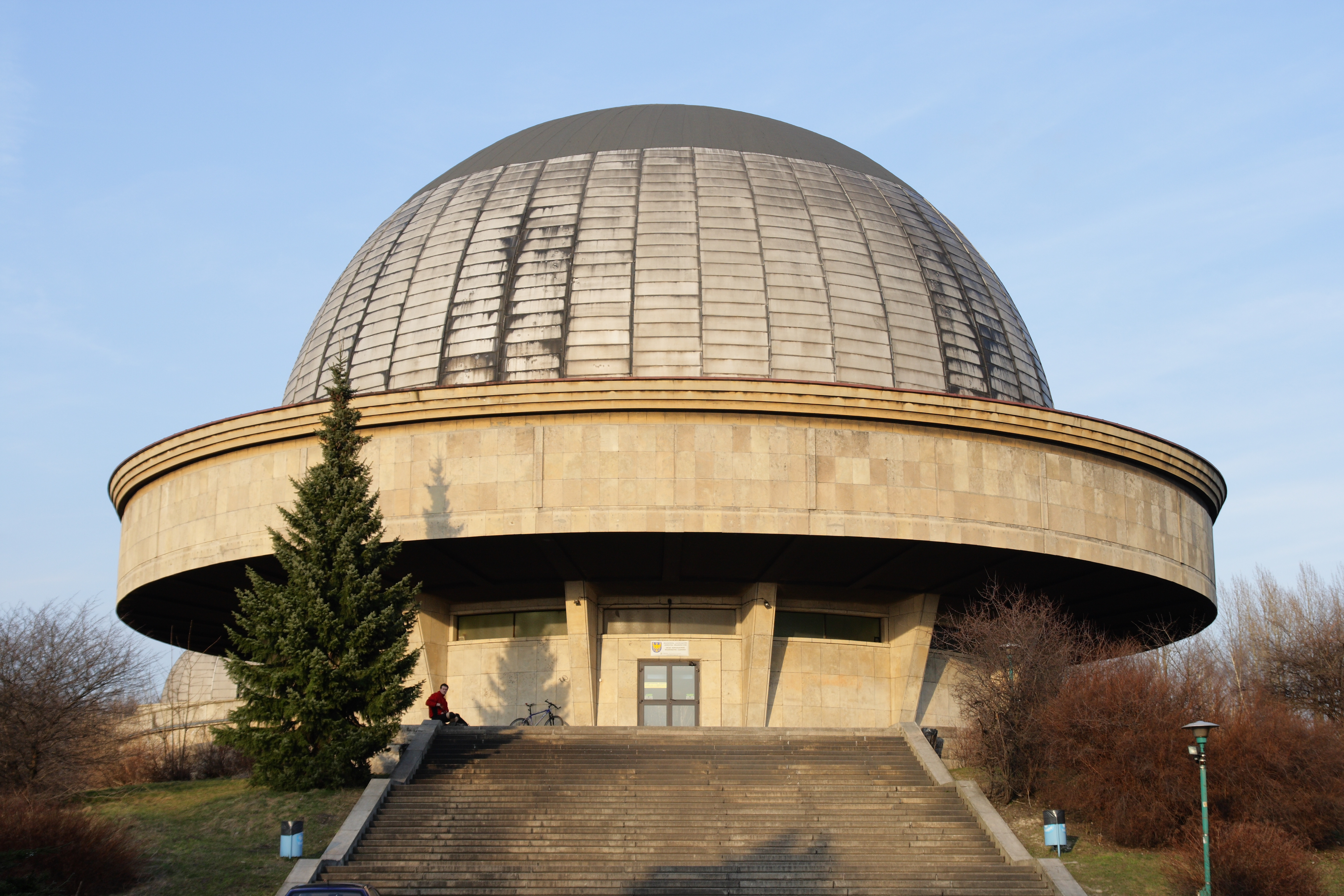 Silesian Planetarium in Chorzów (Poland).